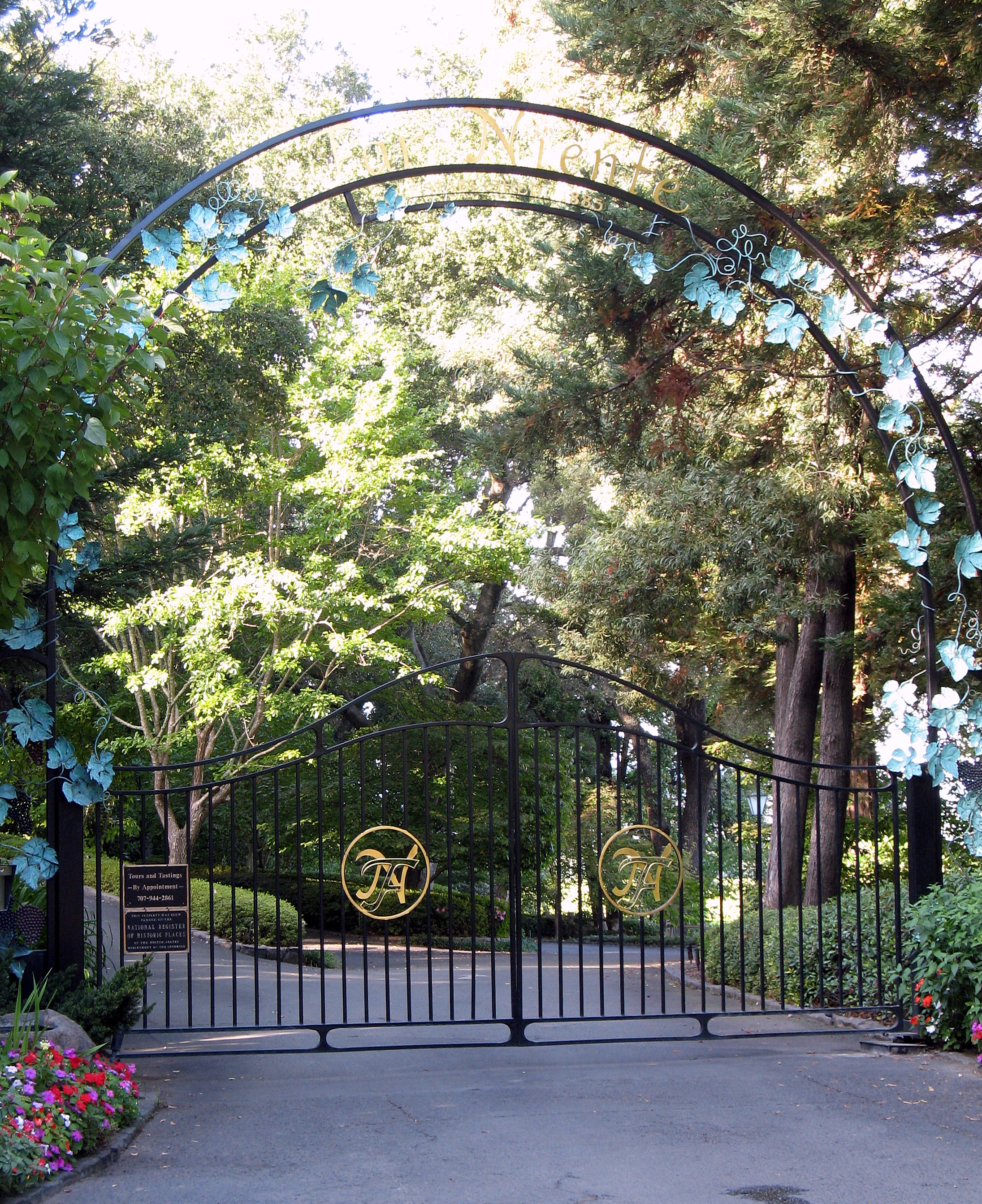 National Register of Historic Places listings in Napa County, California. Far Niente Winery, 1577 Oakville Grade, Oakville, California